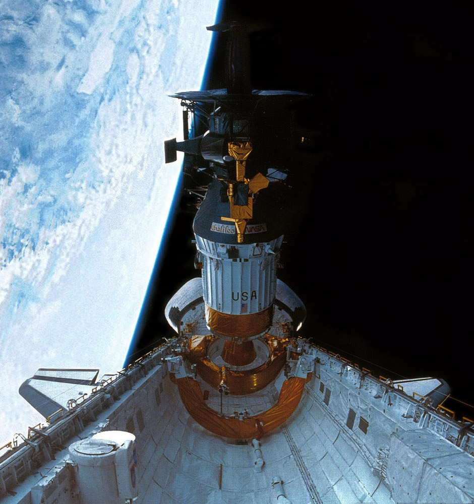 The Galileo spacecraft and its attached Inertial Upper Stage booster are released from the payload bay of Atlantis on October 18, 1989